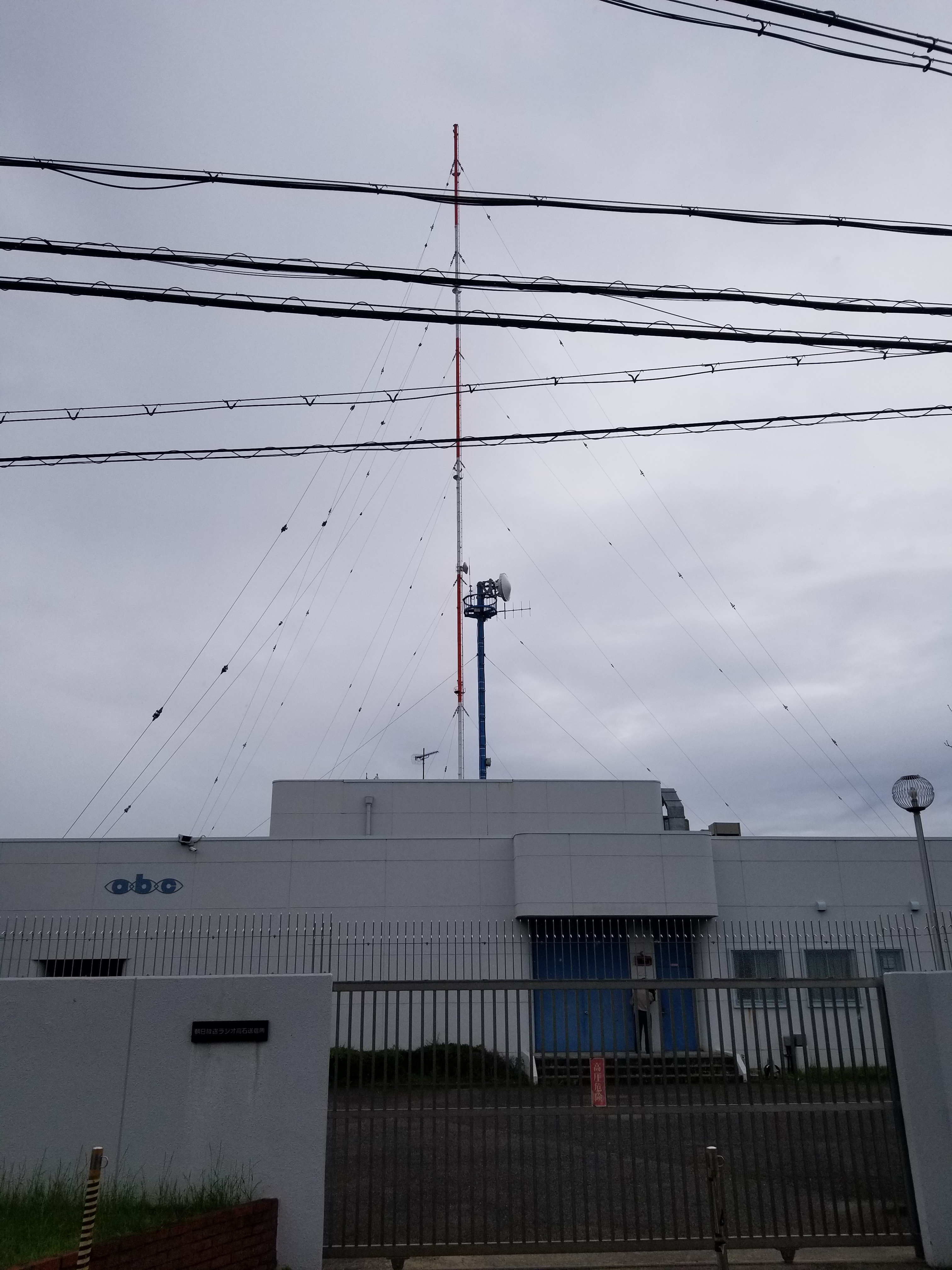 ABC Radio Takaishi Transmitting Station (JONR 1008kHz 50kW)